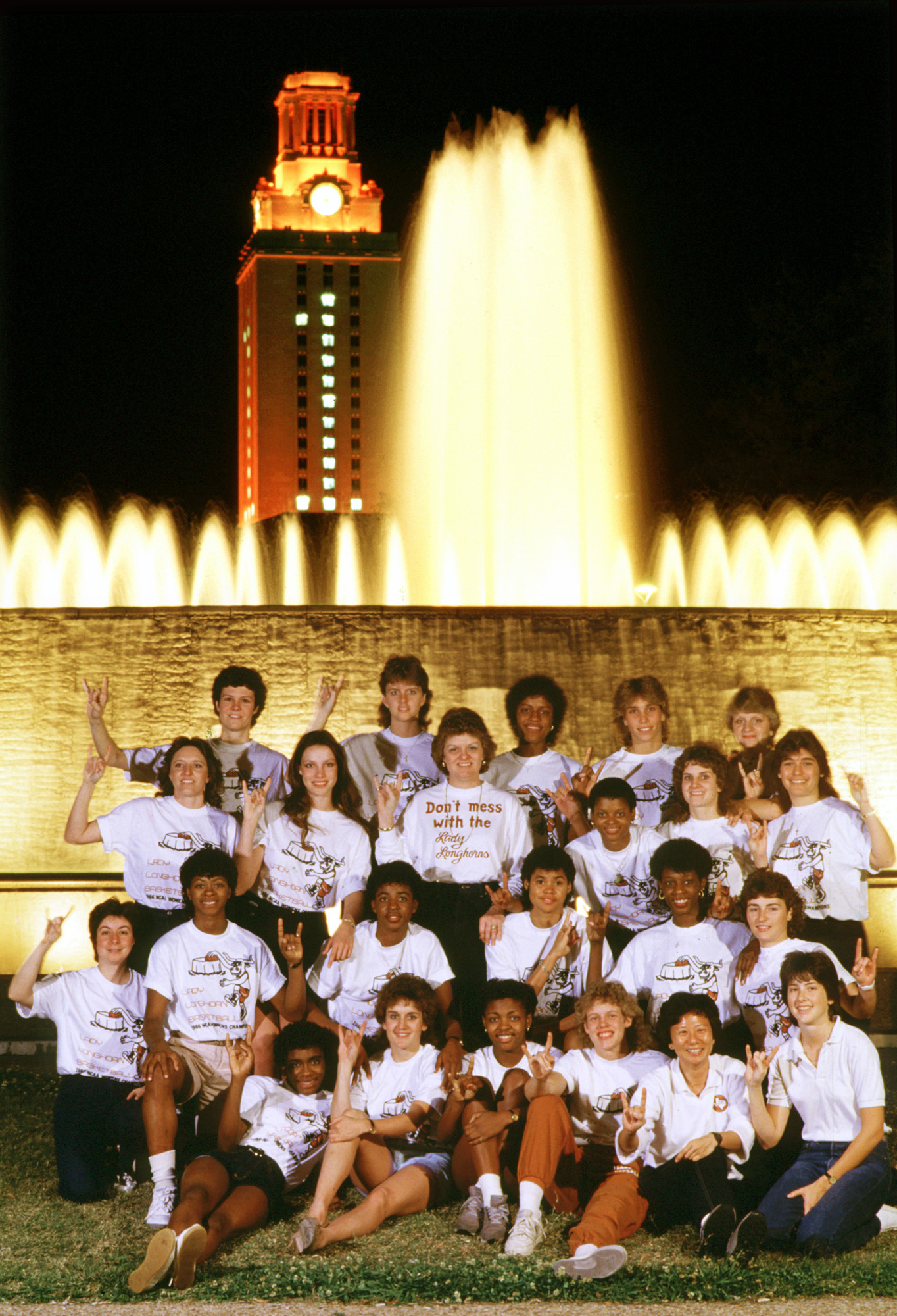 The Texas women's basketball team. The school's main tower is lit with the '#1' in honor of their national championship. This is a tradition done with all the teams that win a national championship